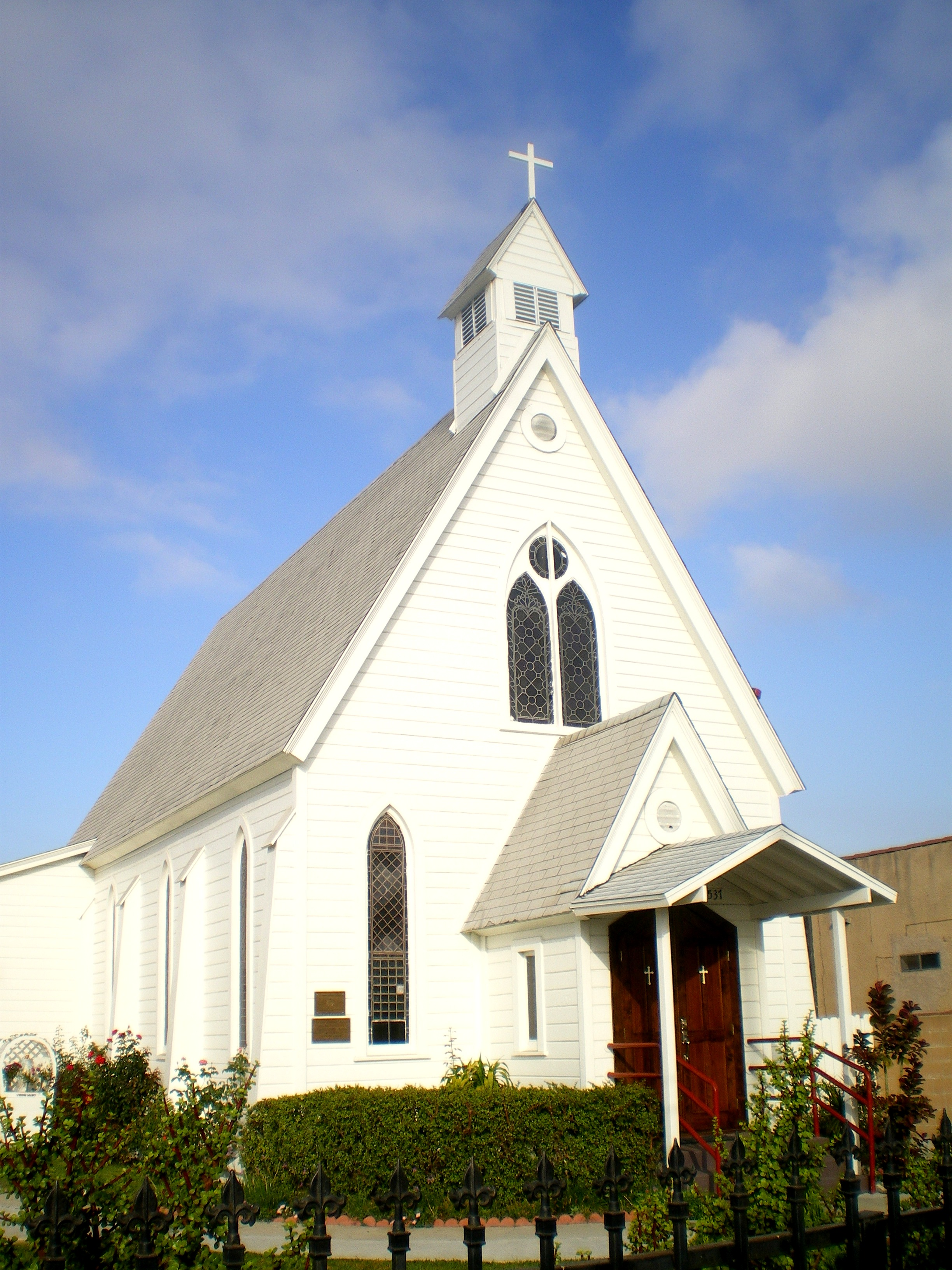 Saint John’s Episcopal Church, 1537 Neptune Ave., Wilmington, Los Angeles, California. Los Angeles Historic-Cultural Monumen.